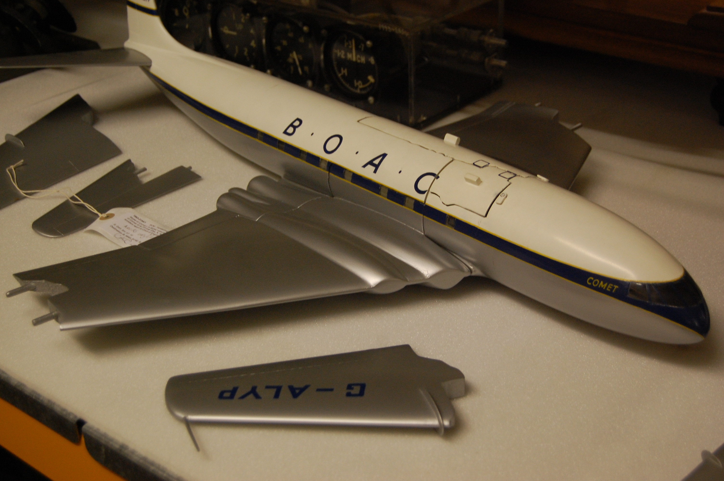 Model BOAC Comet in the Science Museum's Blythe House, Science Museum small objects store